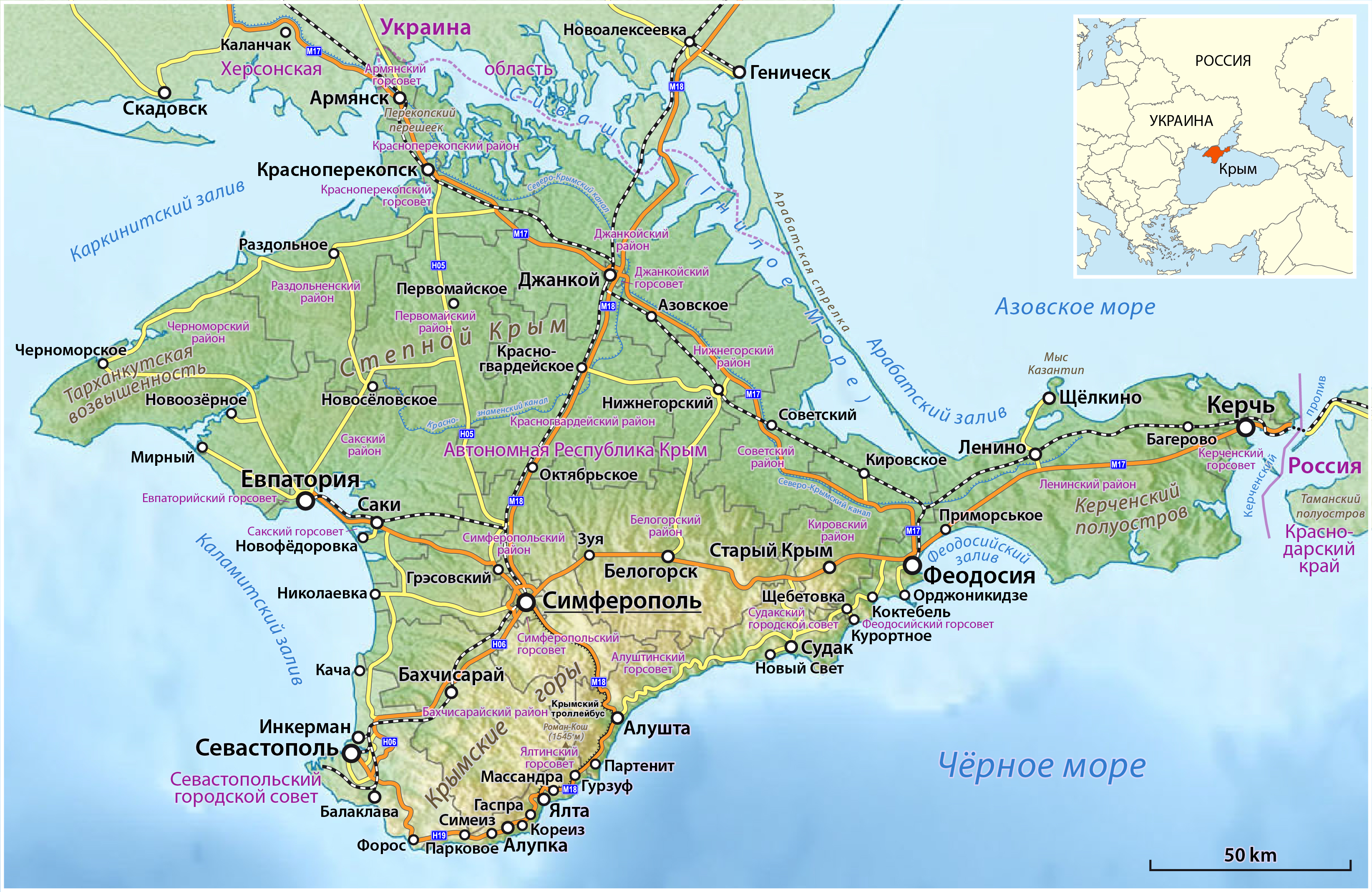 Map of the Crimea